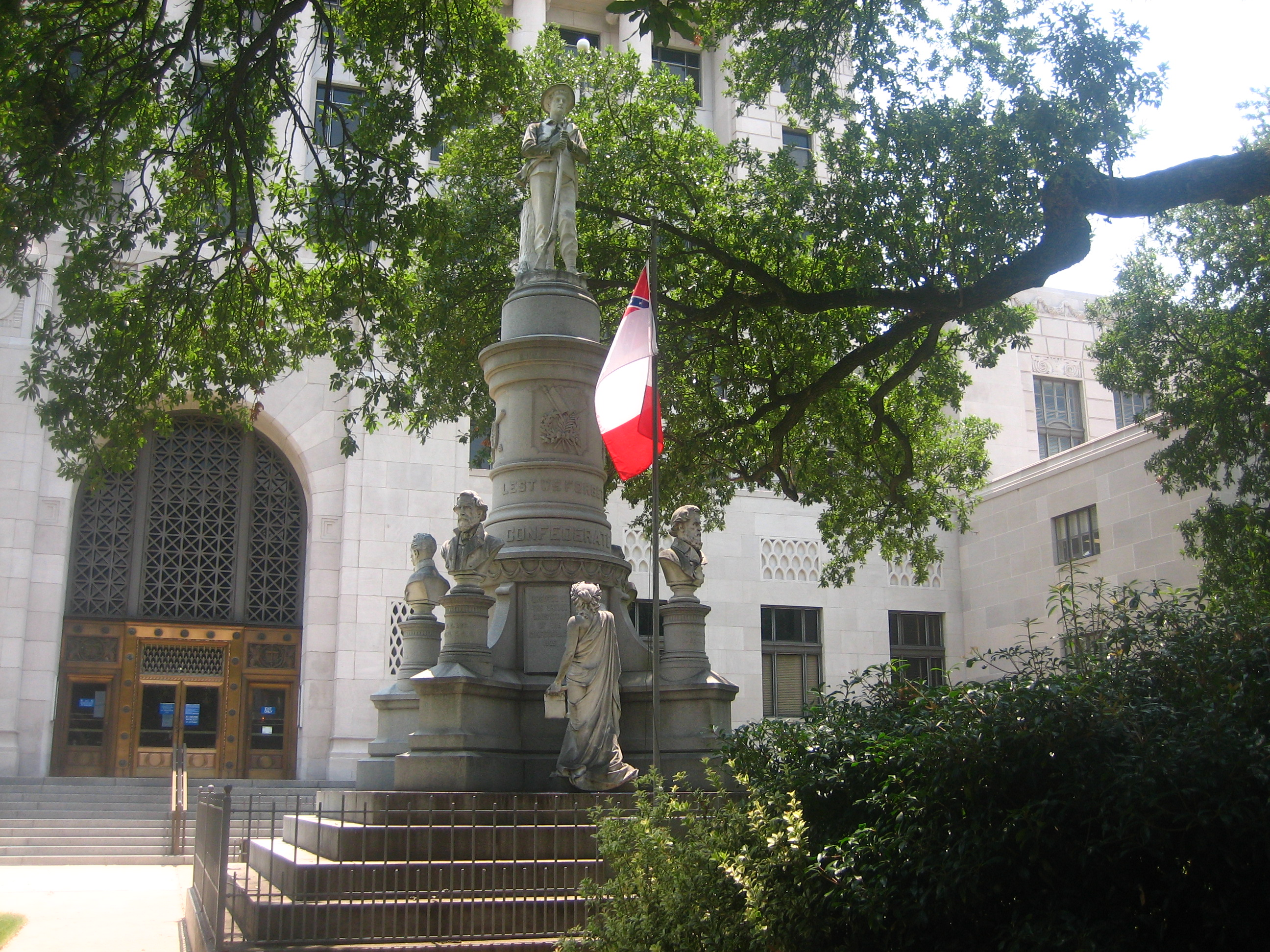 I took photo on Aug. 3, 2008.Billy Hathorn (talk) 16:57, 20 August 2008 (UTC)